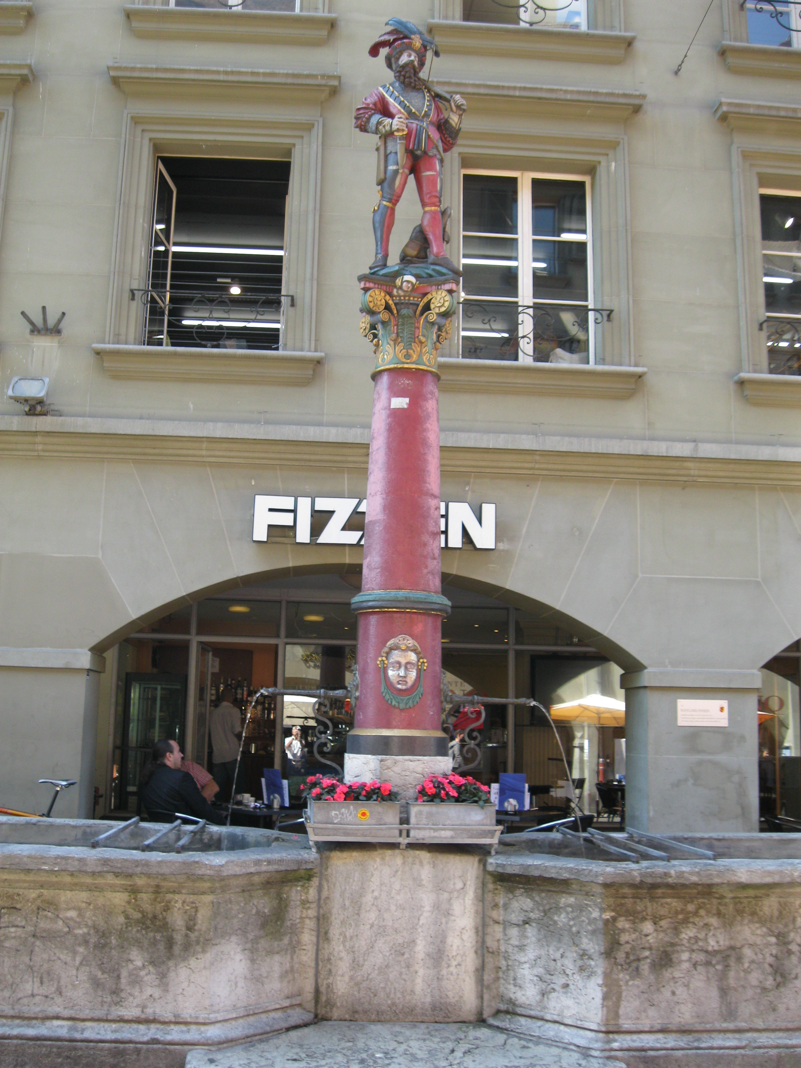 Ryfflifountain